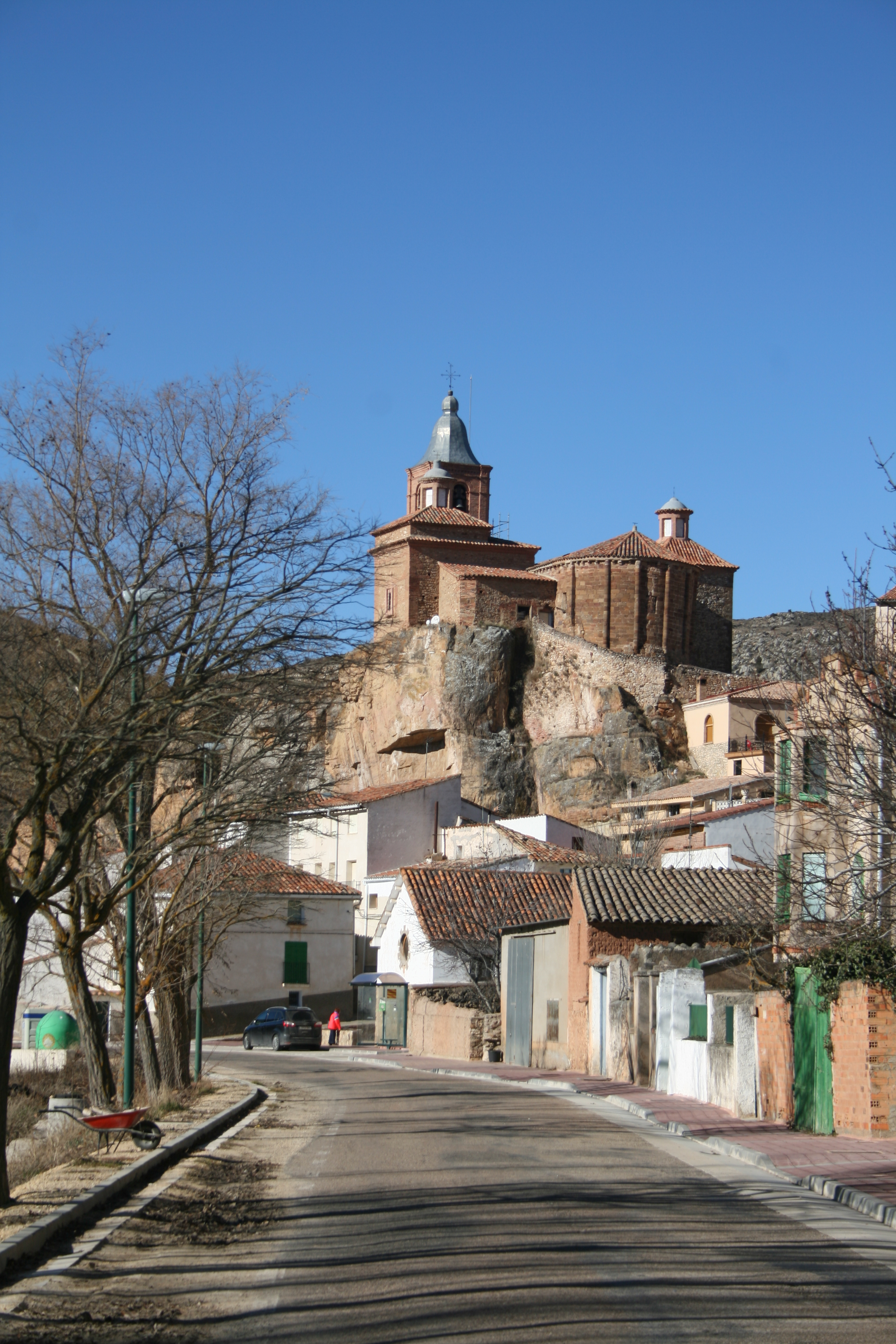 View of Bijuesca, Spain